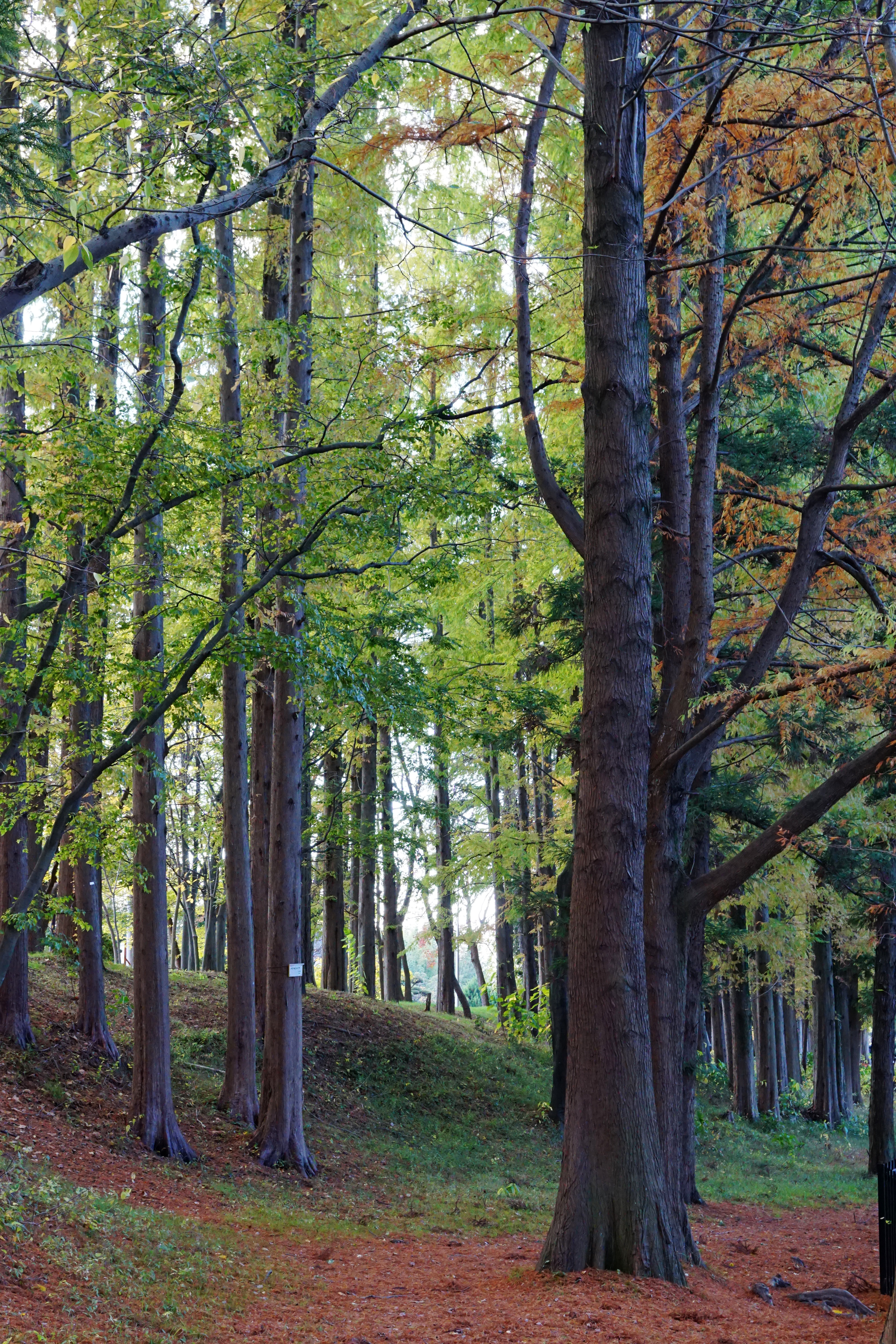 Hattori Ryokuchi in Osaka prefecture, Japan